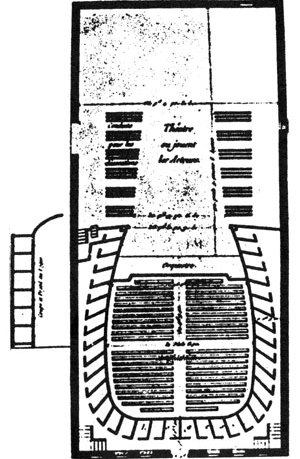 Floor plan of the Teatro delle Dame (also known as the Teatro Alibert) in Rome. The theatre built in 1718 and remodelled several times, most notably by Francesco Galli Bibiena in 1720 and Ferdinando Fuga in 1738, before it was definitively destroyed by a fire in 1863.